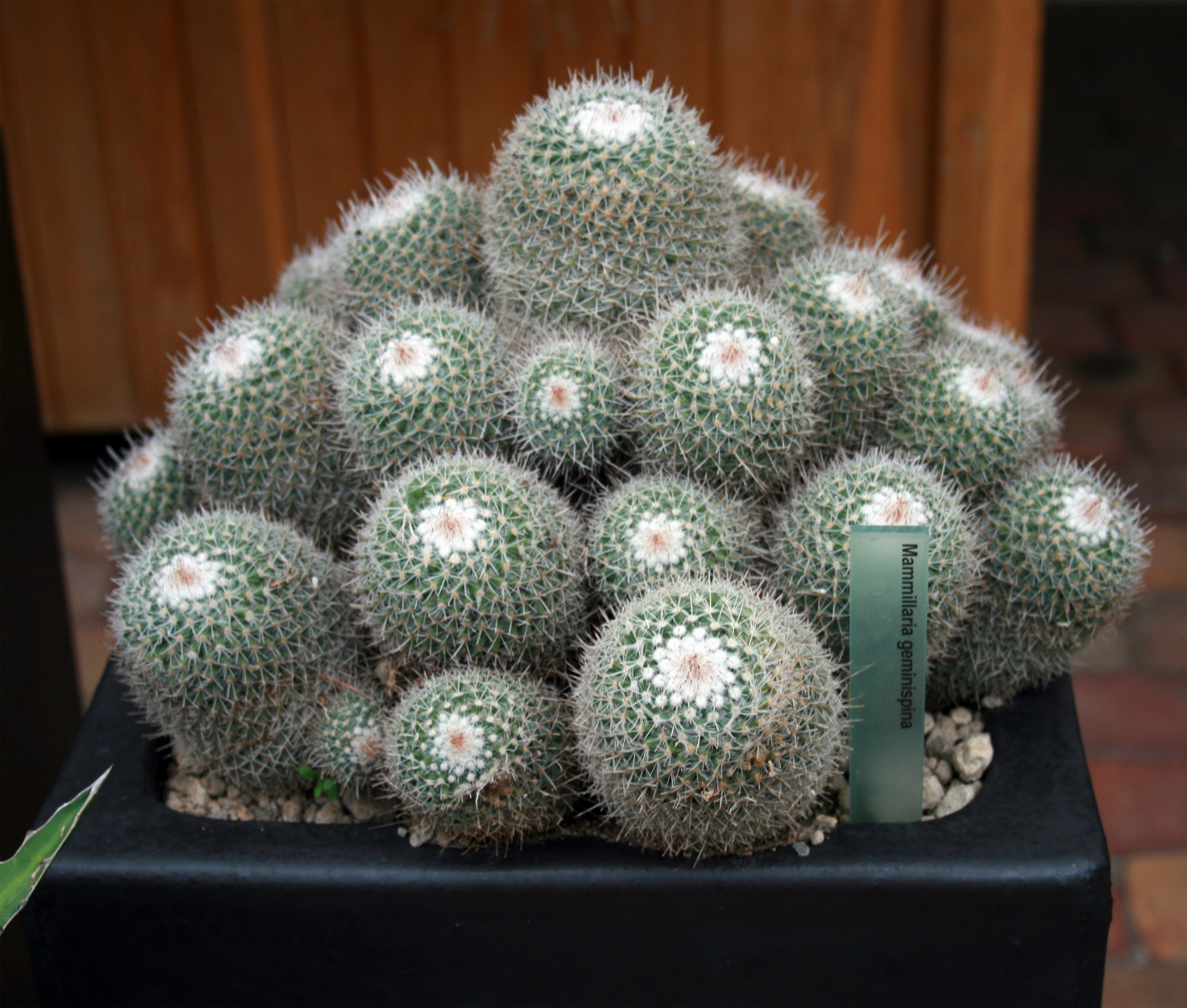 Cactus Mammillaria geminispina in Fata Morgana Greenhouse, Prague, Troja